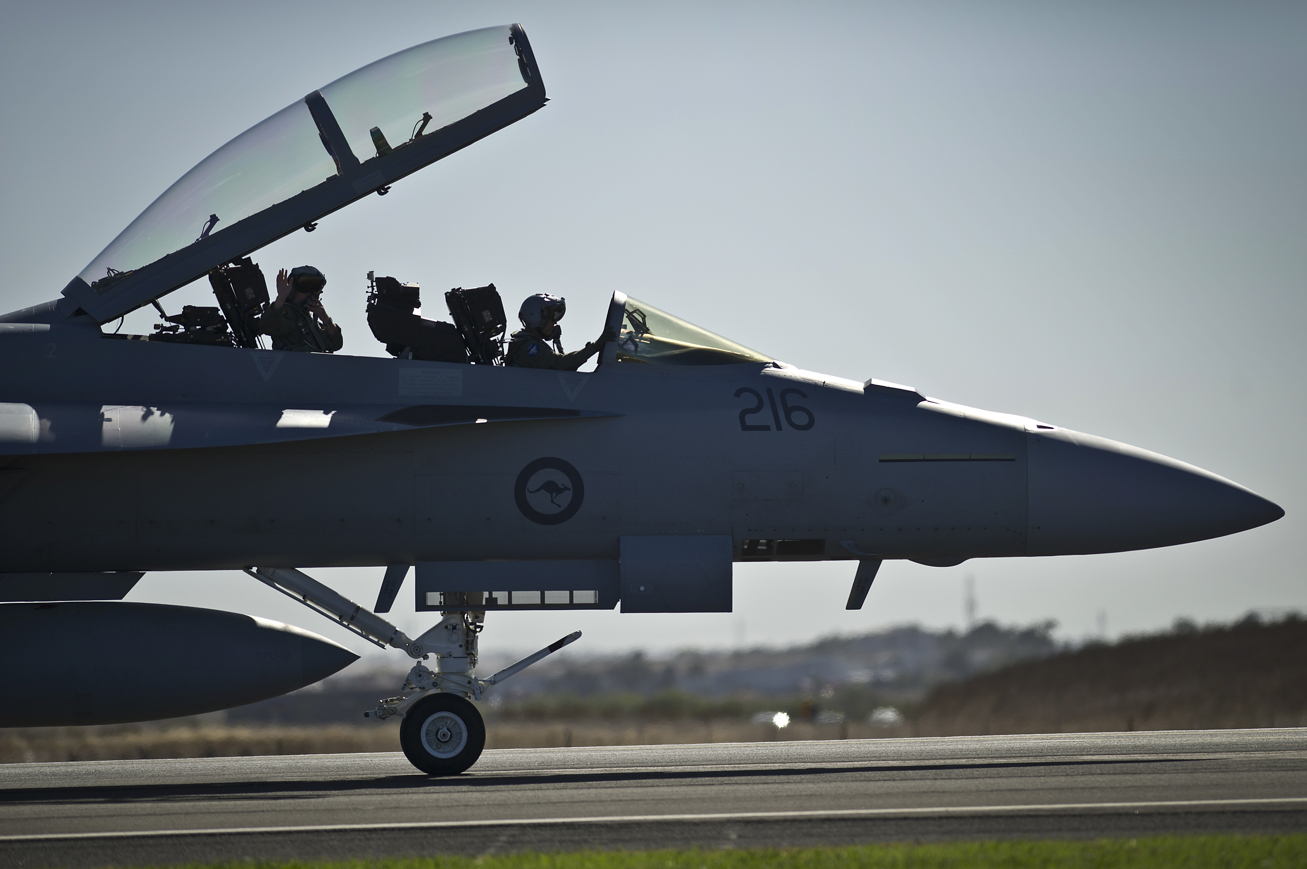 A Royal Australian Air Force F/A-18F Super Hornet taxis in after performing an aerial demonstration for an estimated 180,000 spectators at the Australian International Airshow, March 1, 2013 at Avalon Airport in Geelong, Australia.